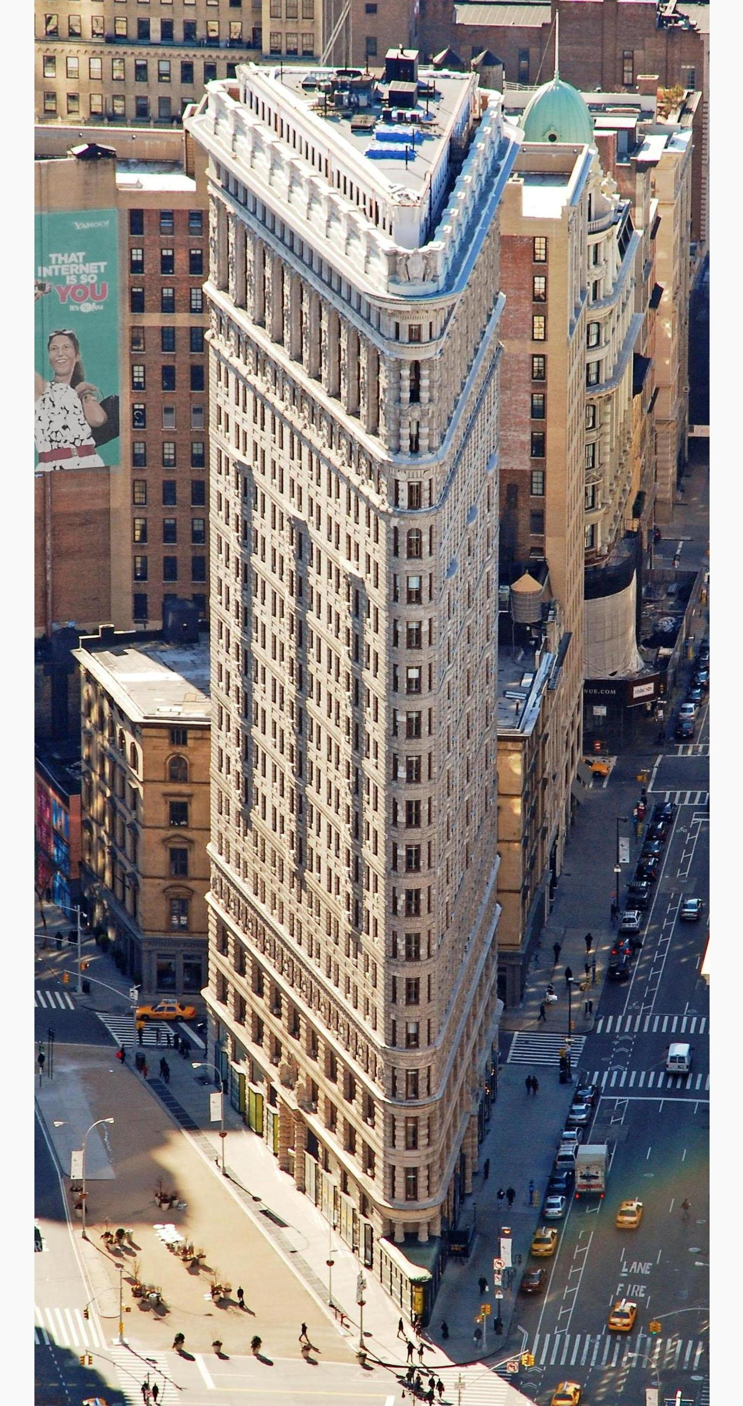 Flatiron Building (formerly the Fuller Building), Manhattan, New York.